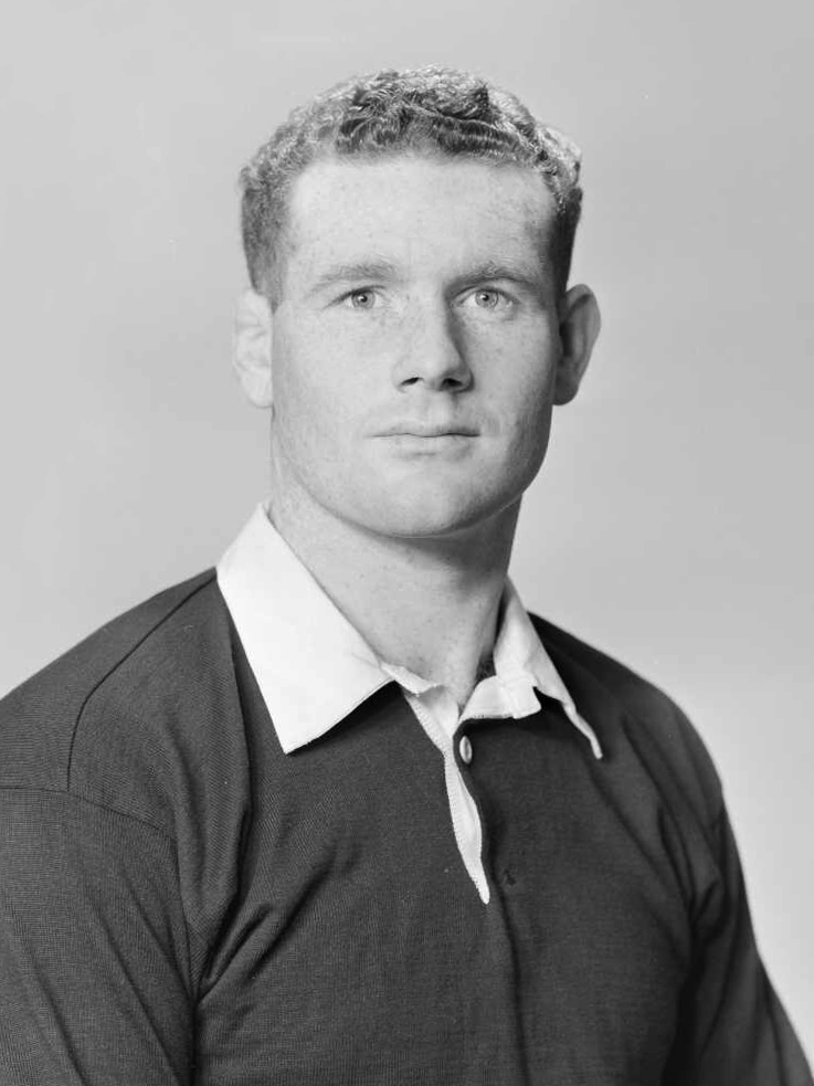 Photograph of rugby player Jules Le Lievre, taken by Crown Studio Ltd of Wellington.